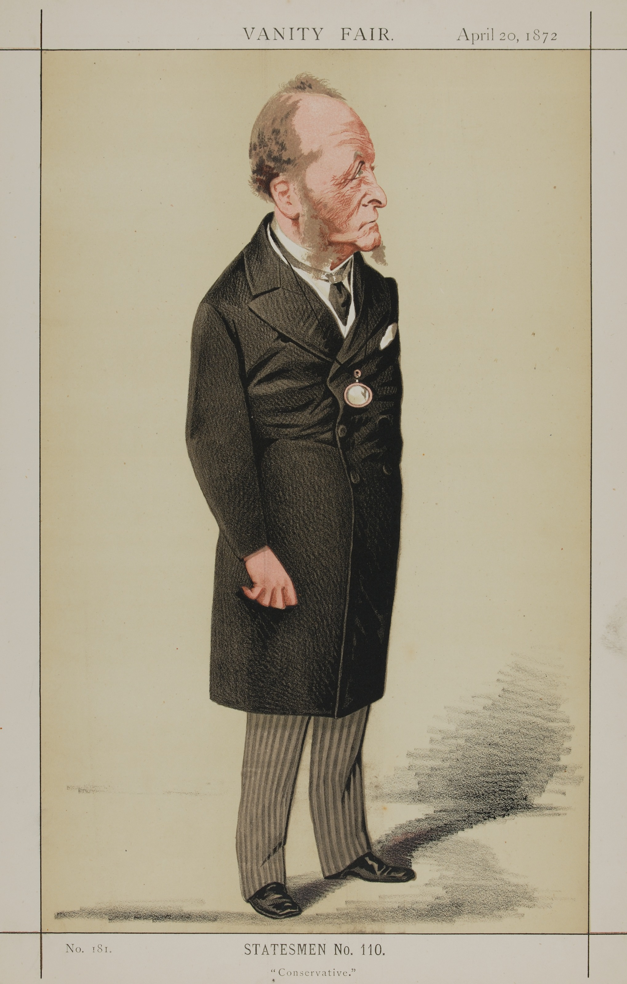 Statesmen No.110: Caricature of The Rt Hon Gathorne Hardy MP DCL. Caption reads: "Conservative"